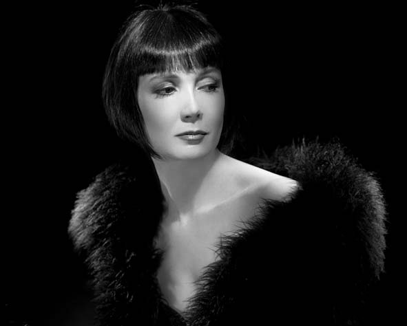 Sabine Azéma photographed by Studio Harcourt Paris